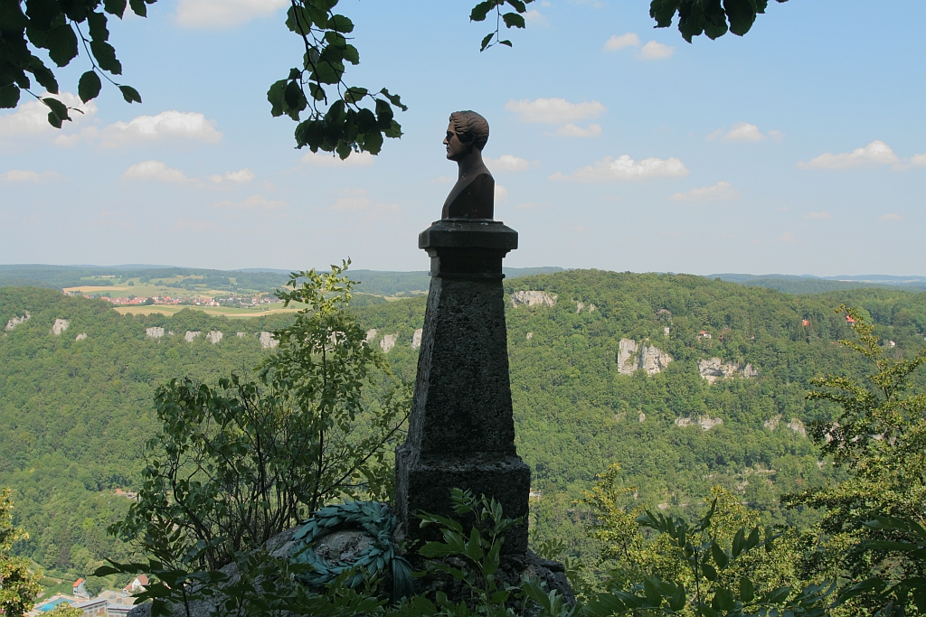 Picture taken by myself from very near the little castle Schloss Lichtenstein in Lichtenstein near Stuttgart, Germany.